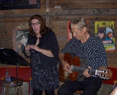 Finnish vocalist Annariitta Minkkinen performing in a private event at restaurant Pooki, Uusikaupunki, Finland, accompanying by her long time artist fellow Petri Rajala in guitar CROPPED FROM AnnariittaM01.jpg by Höyhens